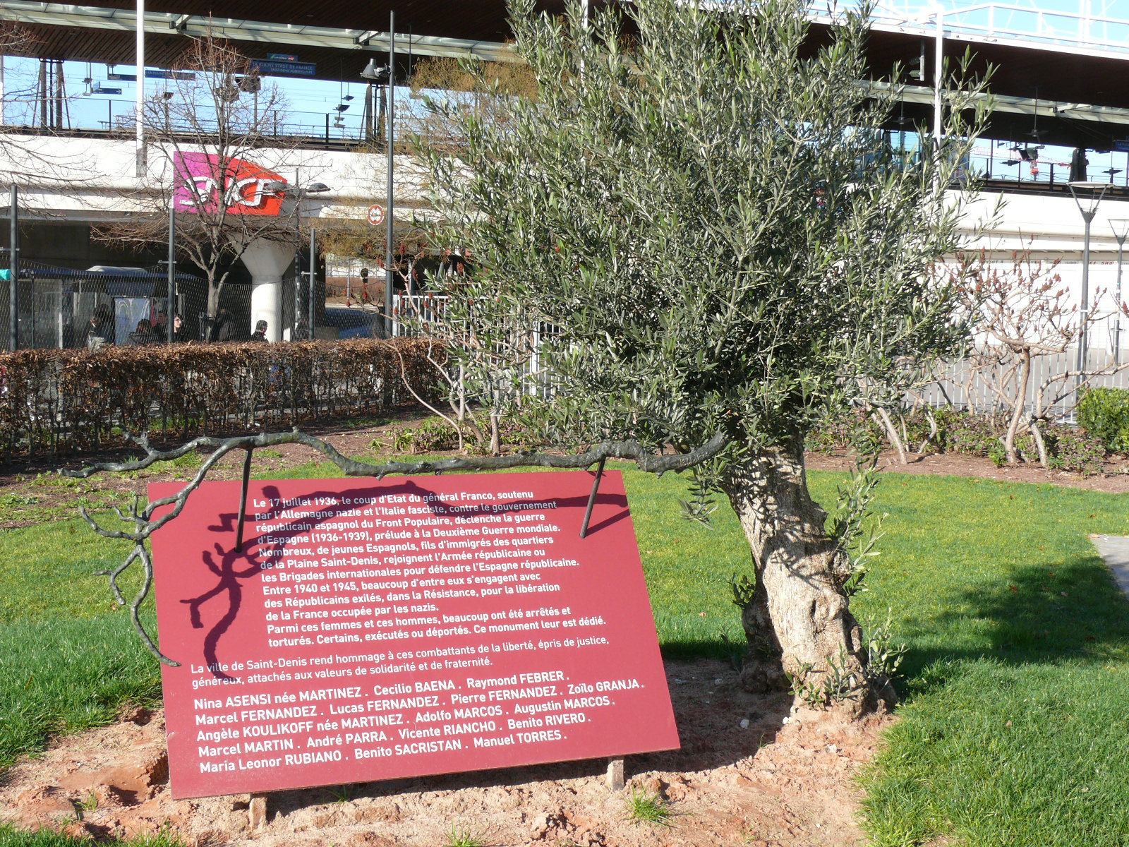 SAINT-DENIS: Memorial to the Spanish fighters of the Spanish Civil War, the International Brigades, and the French Resistance during the Second World War. Memorial located in the Garden of the Rights of the Child in La Plaine Saint-Denis, near La Plaine - Stade de France Station.